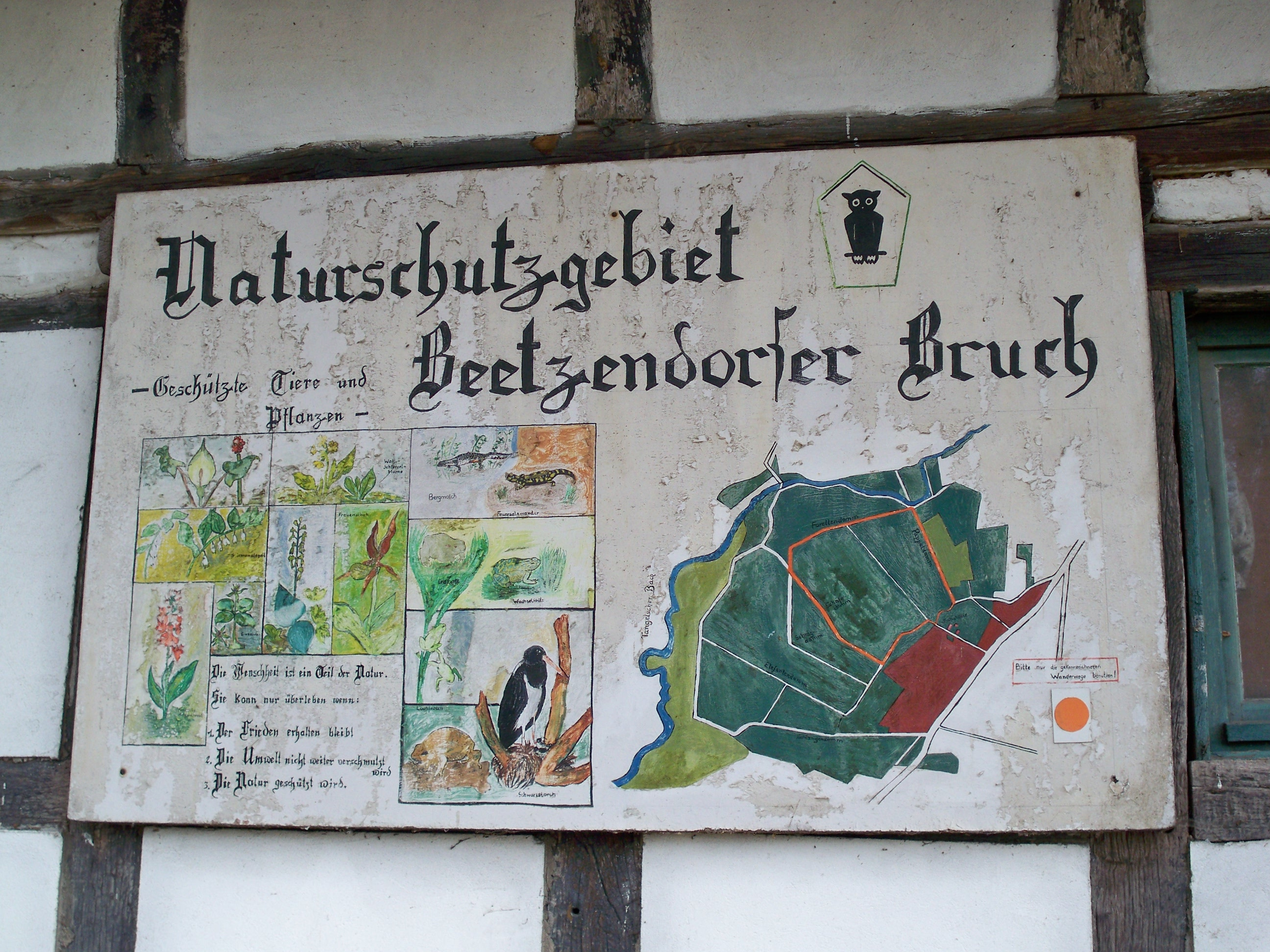 Beetzendorf, Saxony-Anhalt, Nature Reserve Beetzendorfer Bruchwald und Tangelnscher Bach, sign